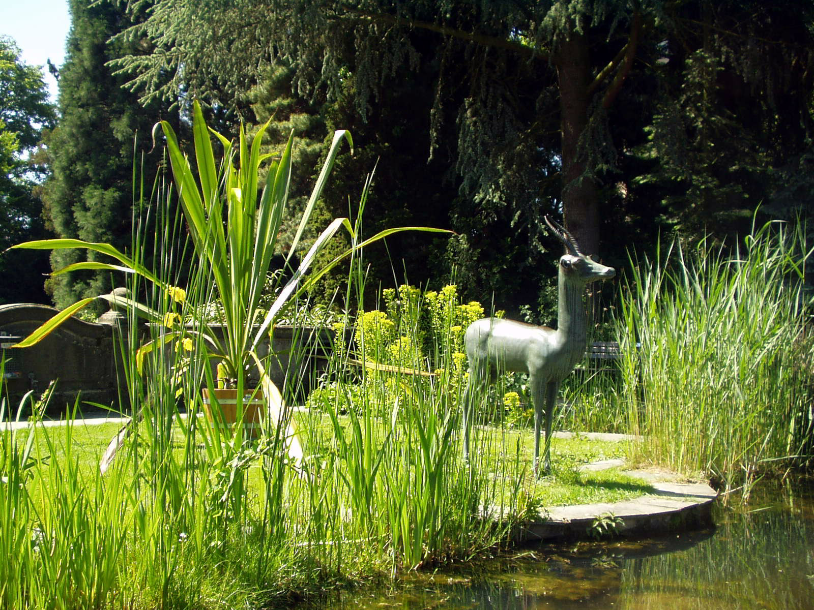 Pond at the Gießen Botanical Garden, in Gießen, state of Hesse, Germany.